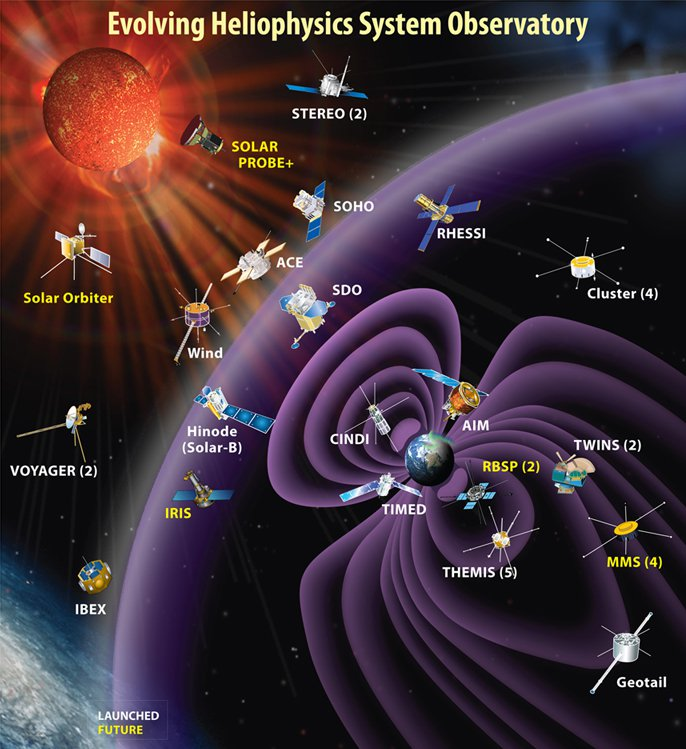 Graphic depicting current and future Heliophysics System Observatory missions in their approximate regions of study.